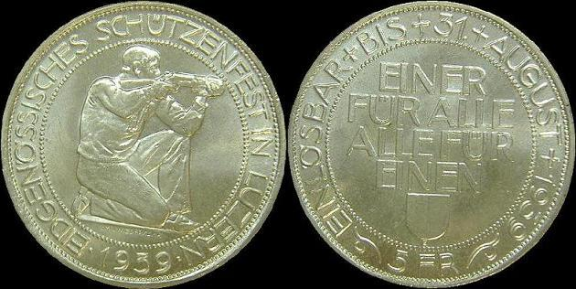 A 1939 Lucerne "shooting taler"